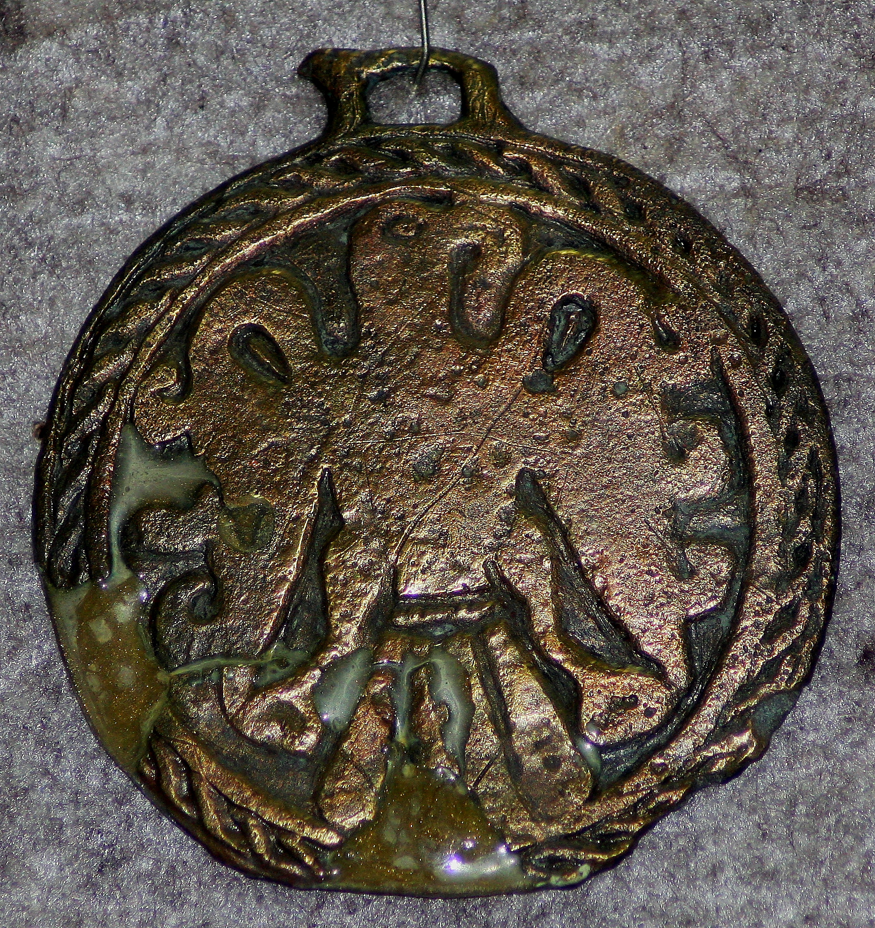 A medieval medallion discovered at Păcuiul lui Soare, in display at Constanţa Museum of National History (11th-12th centuries)